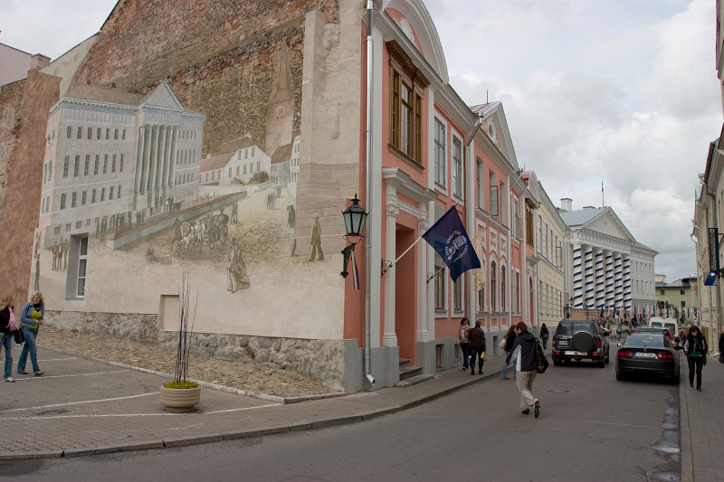 The von Bock House in Tartu